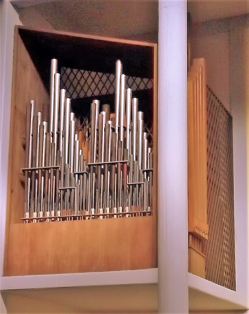 Interior of the roman catholic St.-Elisabeth's-church in Saarbrücken, Saarland, Germany